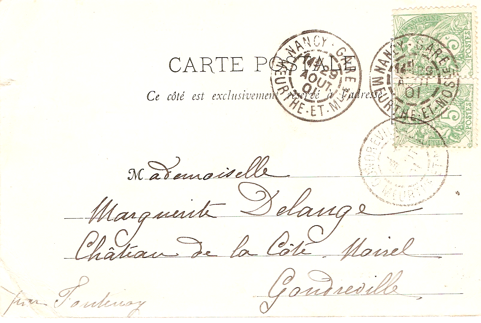 Postal card frank with a type Blanc stamp and cancelled by a machine Daguin.